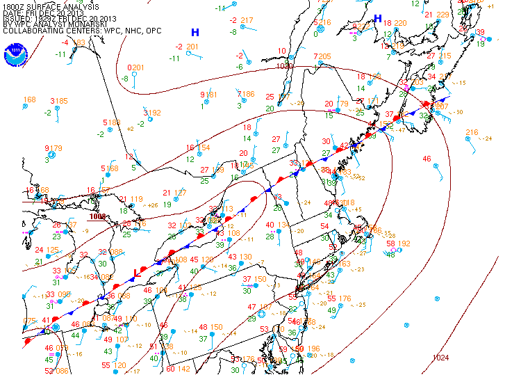 Surface weather map of Dsecember 20, 2013, at 18 UTC for the 2013 Central and Eastern Canada ice storm.